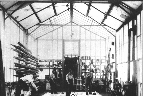 This photograph was published in 1911, and is thus is PD in the USA